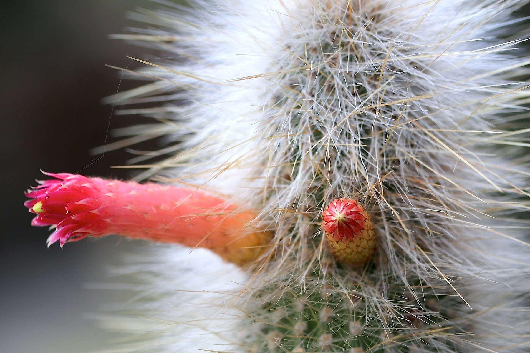 Cleistocactus hyalacanthus Flower